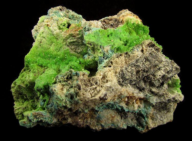 Pyromorphite, Cerussite, Caledonite Locality: Leadhills, South Lanarkshire, Strathclyde (Lanarkshire), Scotland, UK (Locality at ) Size: 7.5 x 5.4 x 3.2 cm. An old-time, very fine combination specimen from the historic mines at Leadhills, Scotland. Sparkly, candy-apple green pyromorphite microcrystals in botryoids richly cover the vuggy, quartz-rich matrix. Seams of tiny cerussite crystals and crusts of contrasting, powder-blue caledonite round out this very rich lead ore piece. Leadhills is the Type Locality for caledonite. Classic combination material from the Robert Whitmore Collection.